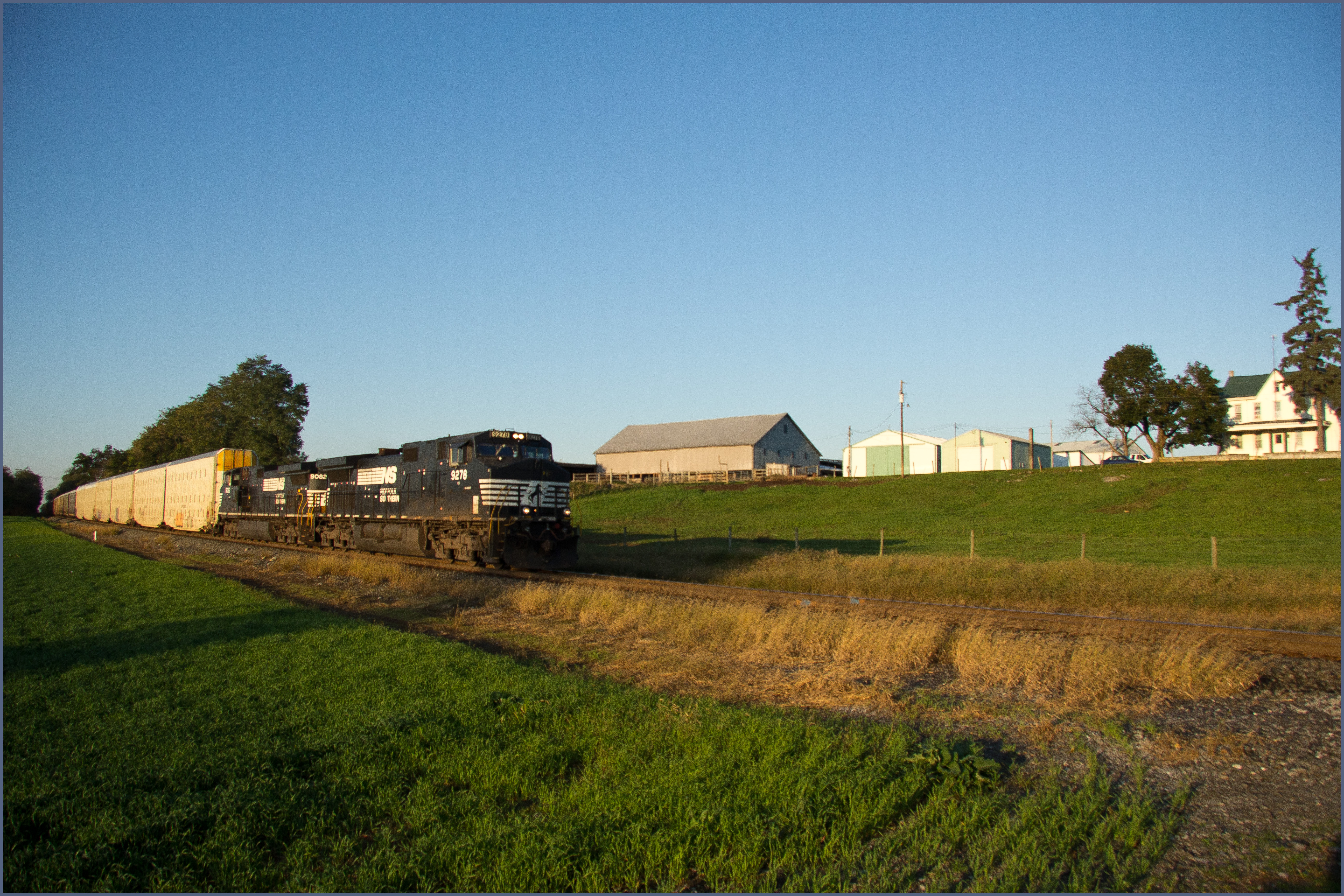 A NS train of auto racks speeds north on the Lurgan Branch a few miles south of Shippensburg, PA.